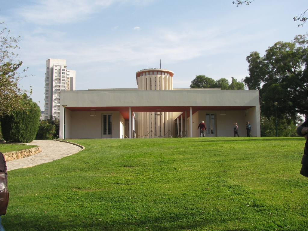 Chaim Weizmann House was designed by renowned Jewish architect Erich Mendelsohn